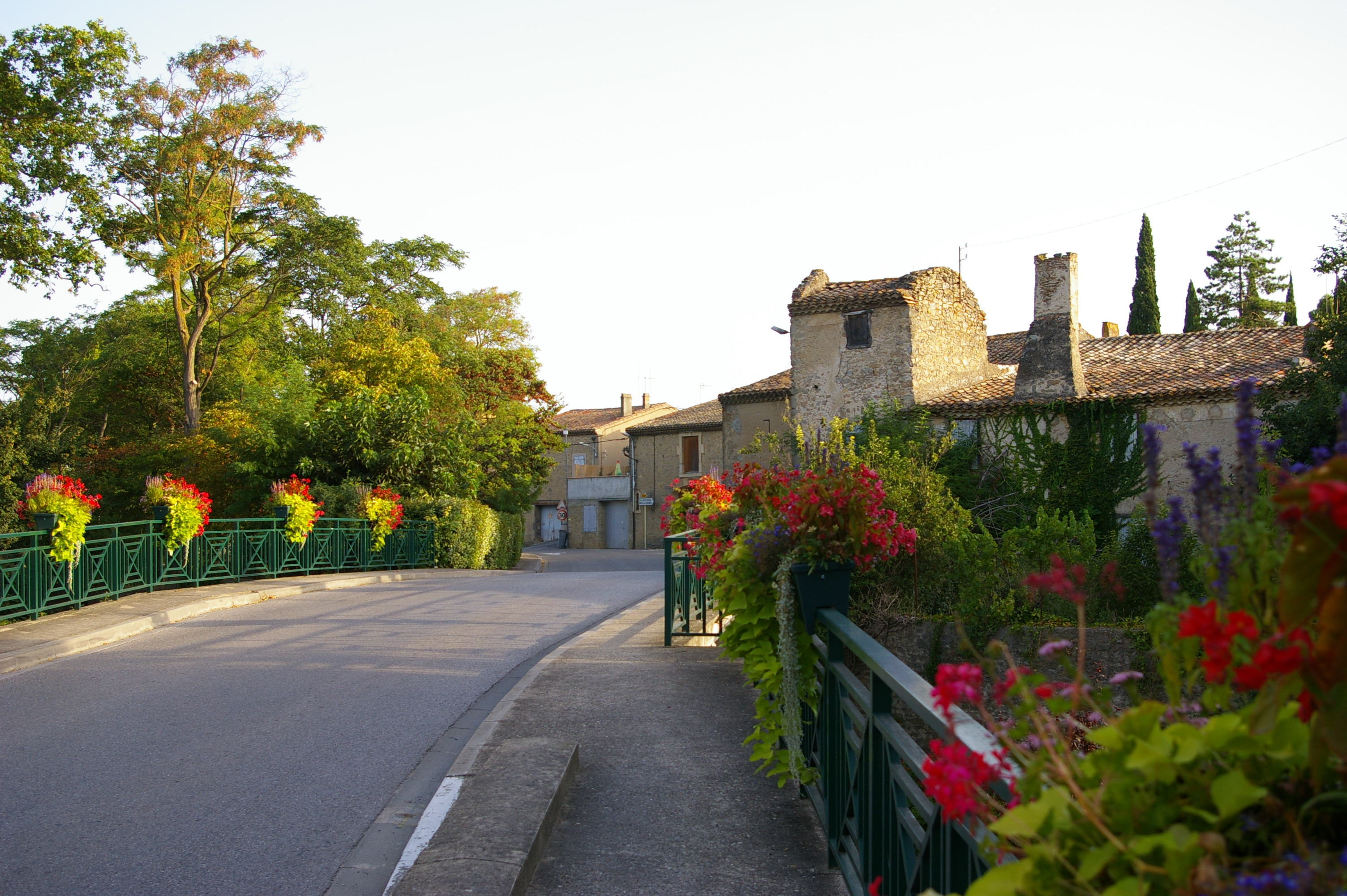 Leuc (dept. Aude), Avenue de Carcassonne